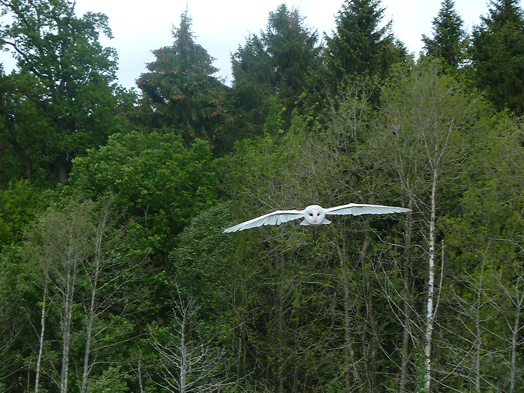 Barn Owl in Flight.